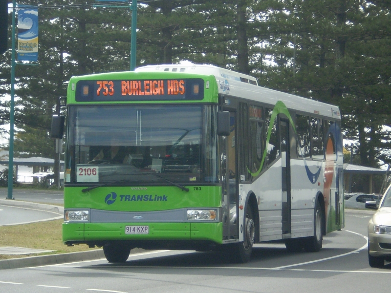 Surfside 783 Bustech VST bodied Volvo B7RLE (914 KXP, built 2008) in Burleigh Heads, Australia.